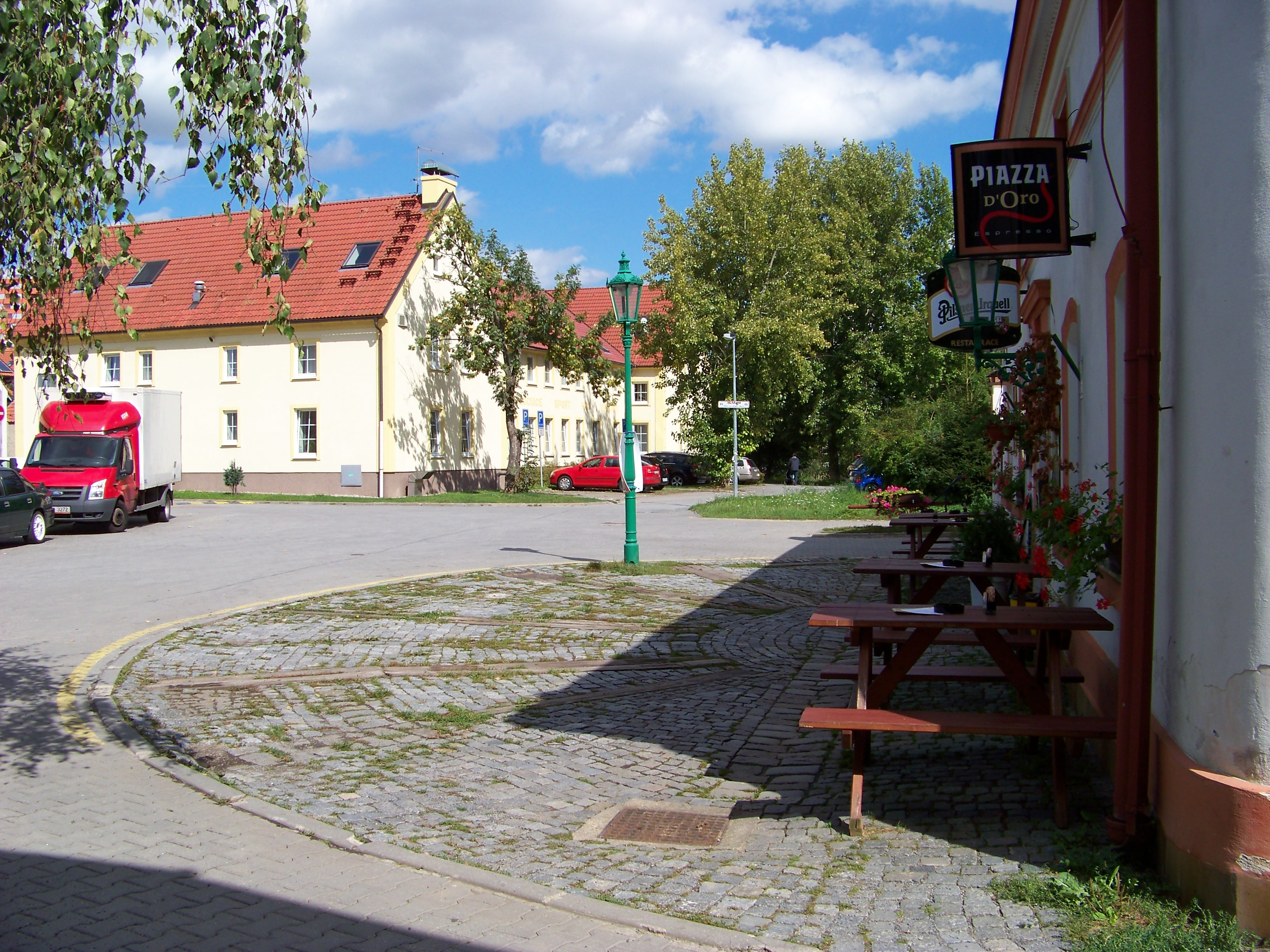 Prague-Stodůlky-Velká Ohrada, the Czech Republic. Ohradské náměstí. - OpenStreetMap(Info)